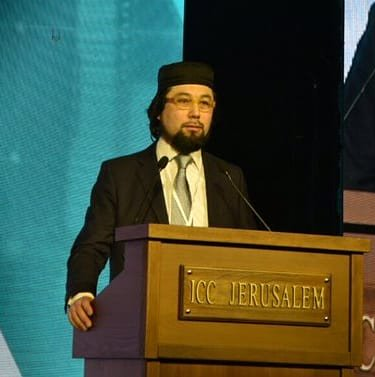 Imam Yahya Sergio Yahe Pallavicini